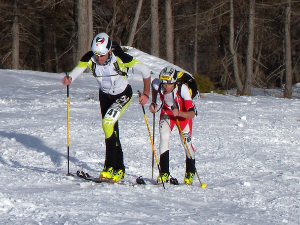 The Italian sky runner Jean Pellissier (right)-Skialp - Matteo Stacchetti e Jean Pellissier